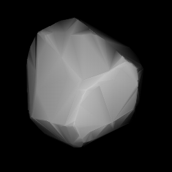 3D convex shape model of 1058 Grubba, computed using light curve inversion techniques. J. Hanuš, J. Ďurech, M. Brož, B. D. Warner (June 2011). "A study of asteroid pole-latitude distribution based on an extended set of shape models derived by the lightcurve inversion method". Astronomy and Astrophysics 530: A134. ISSN 0004-6361. arXiv